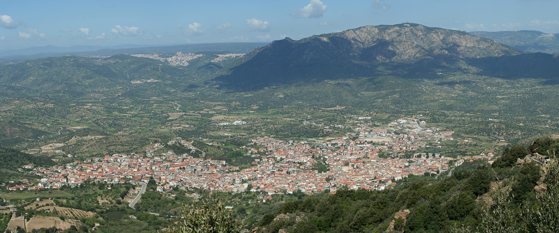 Oliena (in the foreground), Nuoro (the big city on the mountain in the middle) with Monte Ortobene (right of Nuoro), Orune (in the right top corner)